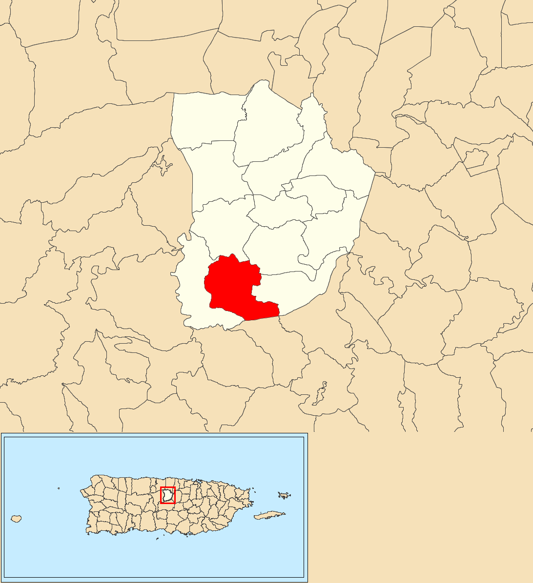 Pasto, Morovis, Puerto Rico locator map